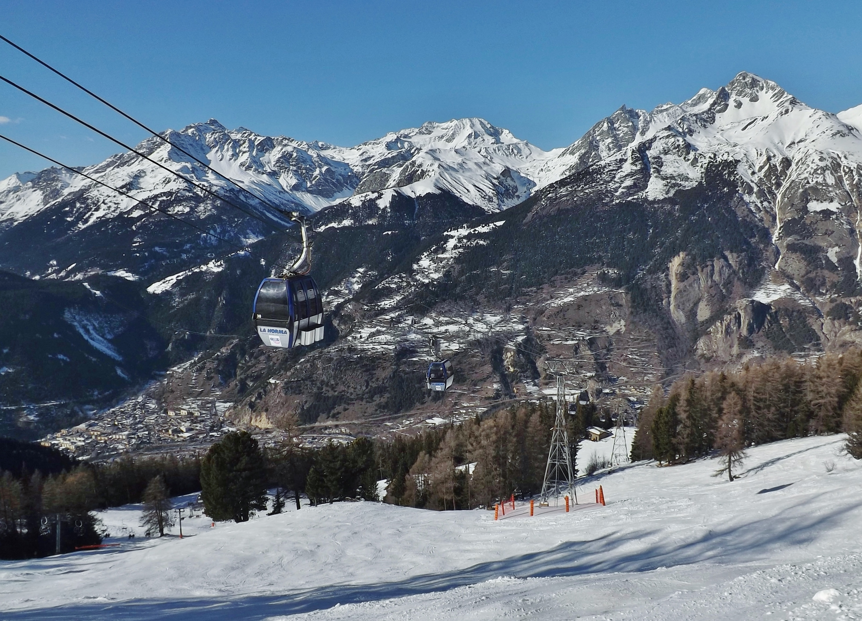 Sight of La Norma ski resort gondola lift near its arrival station, with the town of Modane visible on the left, in Savoie, France.